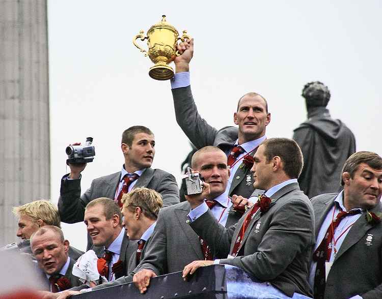 The England Rugby Team on their victory parade through central London, shown here at Trafalgar Square. Front row left to right: Moody, Back, Tindall, Lewsey, Vickery, Woodman, Leonard. Backrow: Cohen, Dallaglio